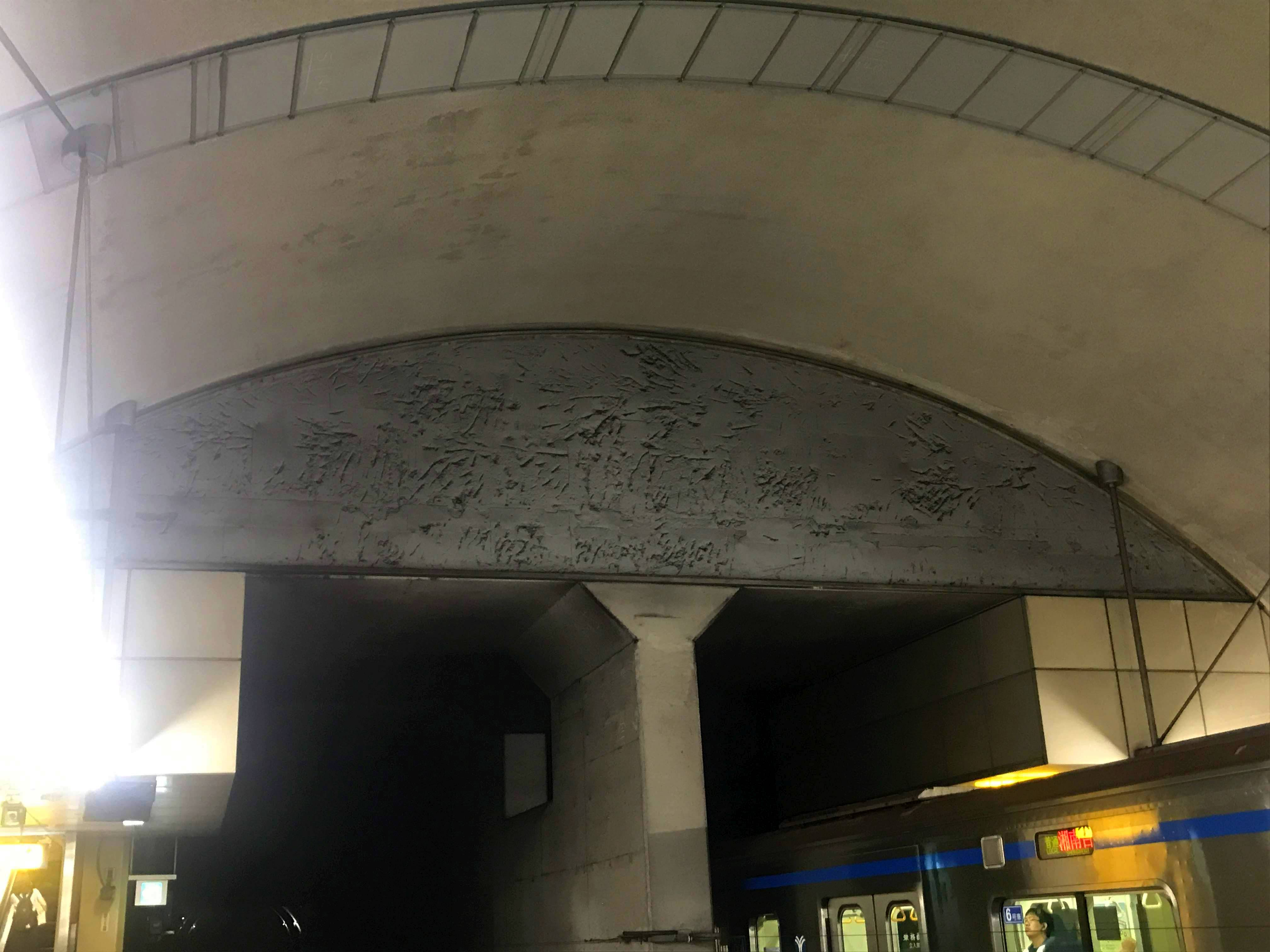 The remains of a relief installed on the shaft wall of Mitsuzawa-Kamicho Station on the Yokohama Municipal Subway Blue Line. It is filled for tunnel repair.